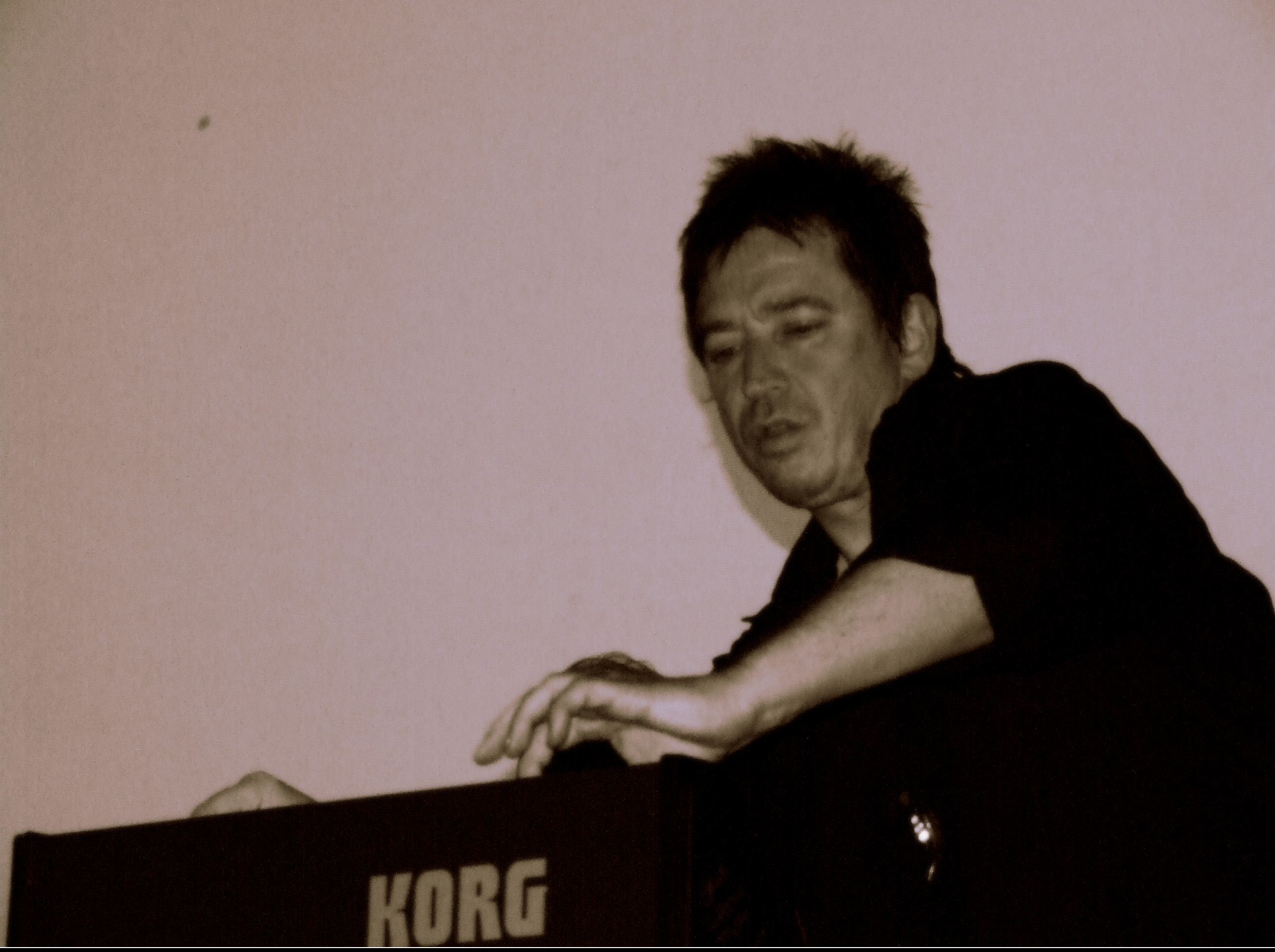 Alan Wilder, an English keyboardist. A former member (1982-1995) of "Depeche Mode".